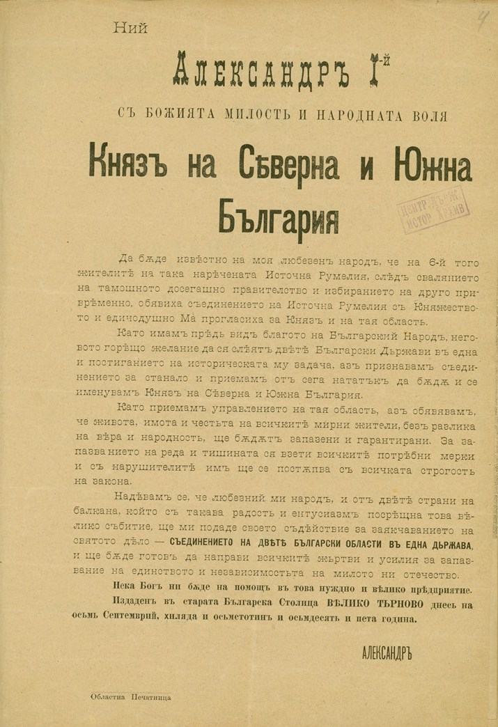 Manifesto of Prince Alexander I Battenberg to the Bulgarian people proclaiming the unification of the Principality of Bulgaria with Eastern Rumelia.